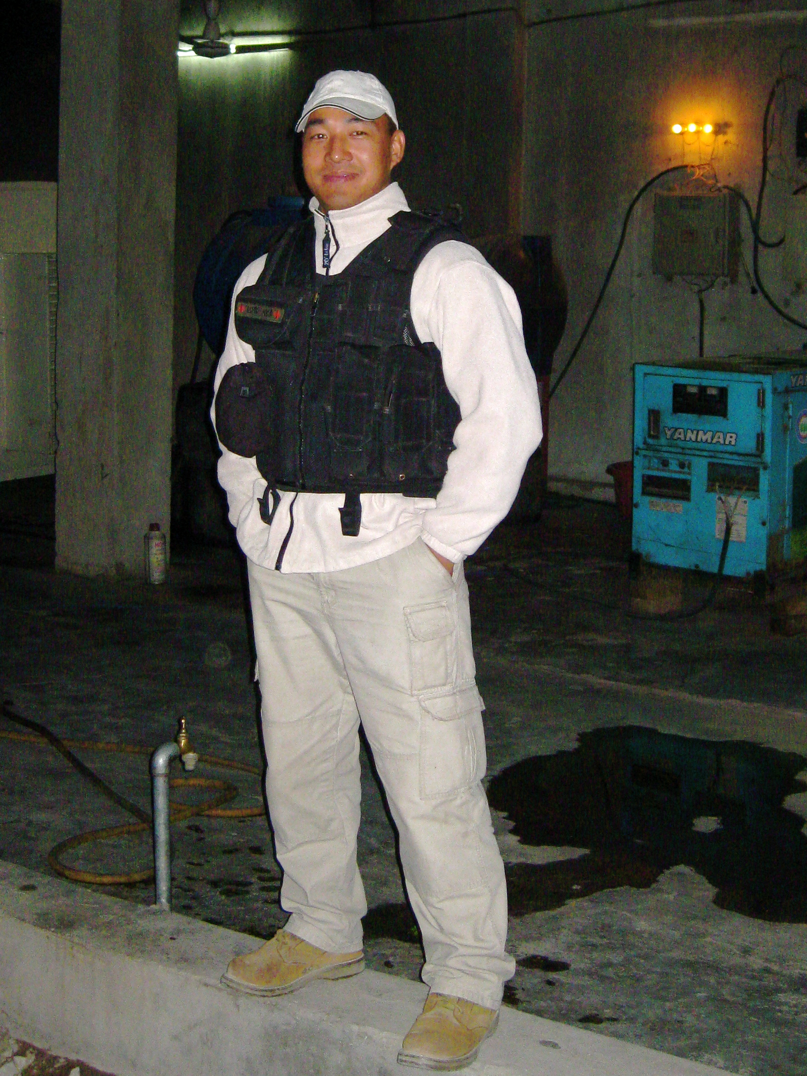 Gurkha bodyguard in Nangarhar Province in Afghanistan. Some of the best bodyguards are Gurkhas, Nepalese soldiers who work around the world before retiring home. They have a long history, entering into British services around 1817. They currently still serve with the British, Indian, and Singaporean miltiaries. From Wikipedia: "The Gurkhas were designated by British officials as a "Martial Race". "Martial Race" was a designation created by officials of British India to describe "races" (peoples) that were thought to be naturally warlike and aggressive in battle, and to possess qualities like courage, loyalty, self sufficiency, physical strength, resilience, orderliness, the ability to work hard for long periods of time, fighting tenacity and military strategy."